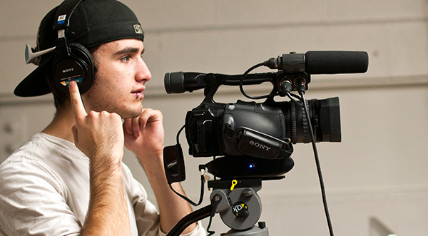 Isaacson School for Communication, Arts & Media at Colorado Mountain College student